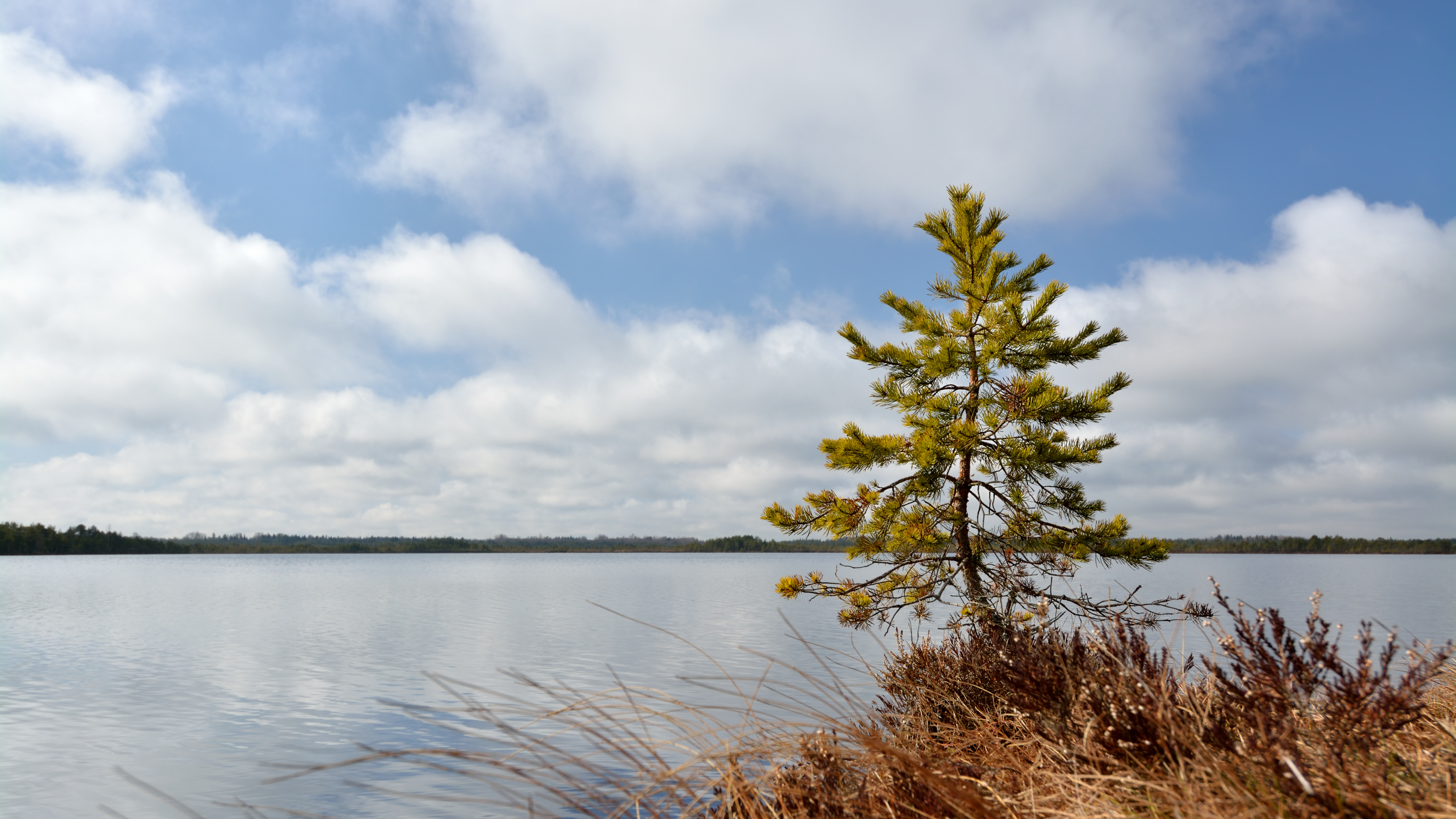 Loosalu lake, with small pine (Pinus sylvestris) on the shore.